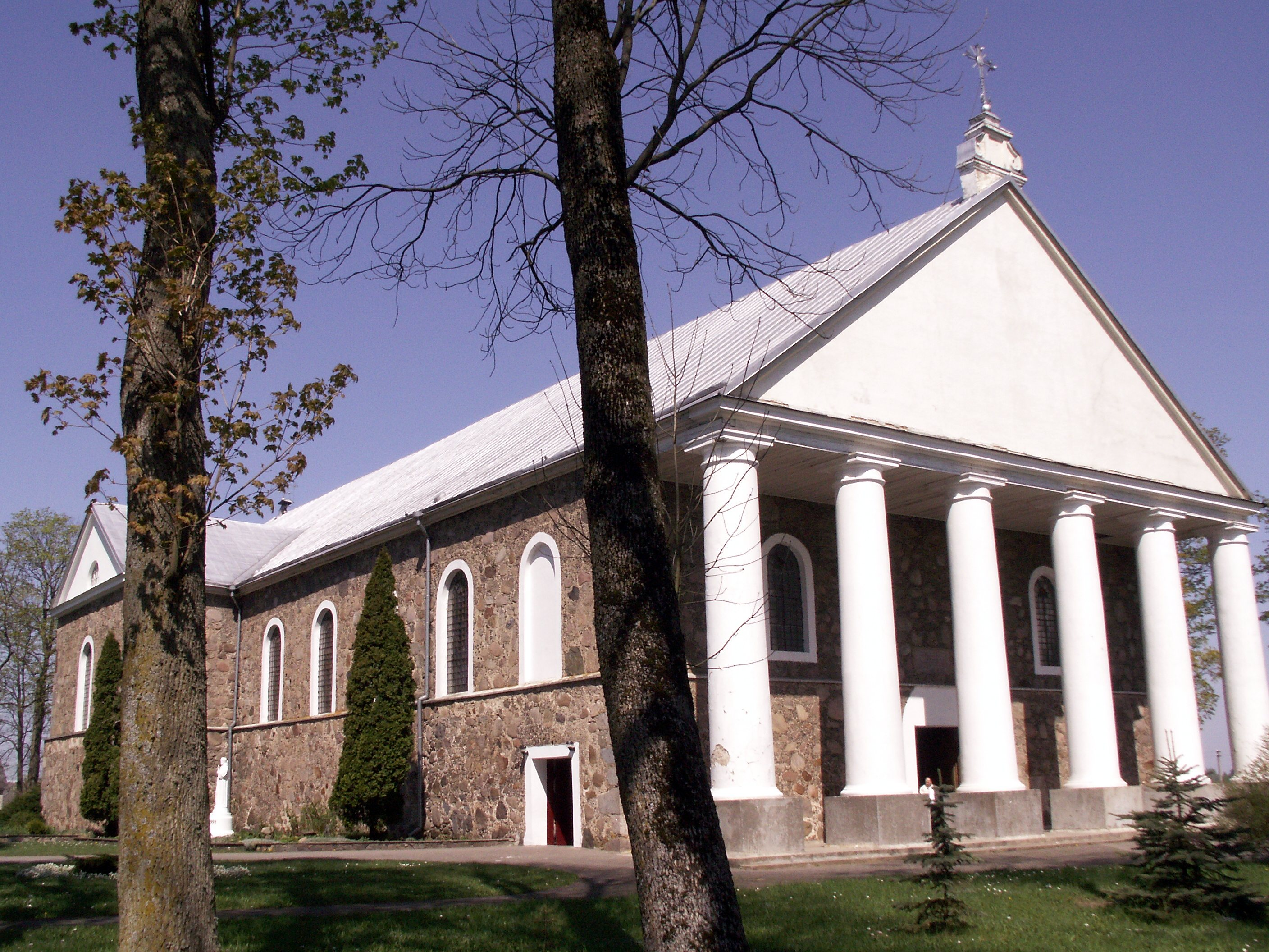 Eišiškės Churche, Šalčininkai district, Lithuania